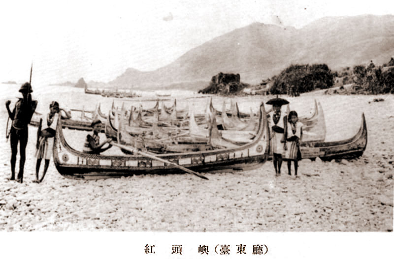 Old photo of the people of Orchid Island (Tao language: Ponso no Tao), near Taiwan.